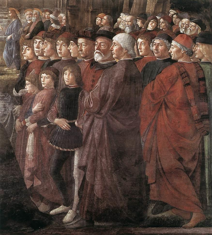 Calling of the Apostles (detail)